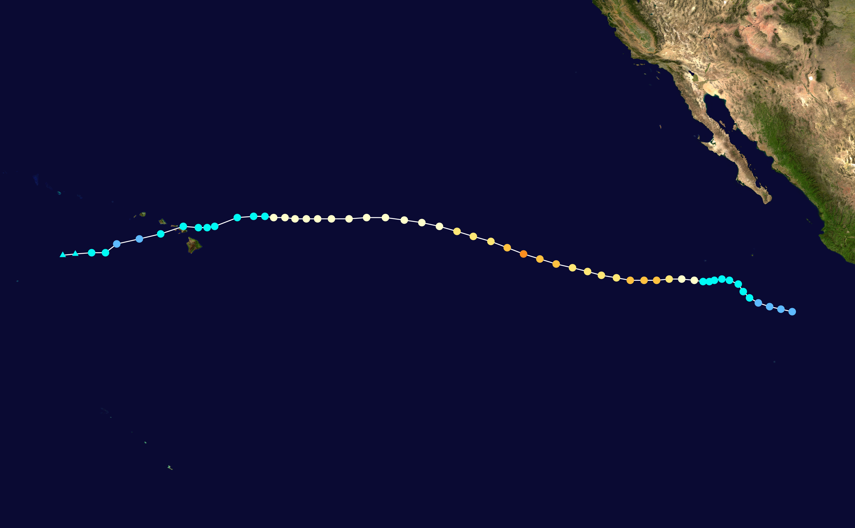 Track map of Hurricane Olivia of the 2018 Pacific hurricane season. The points show the location of the storm at 6-hour intervals. The colour represents the storm's maximum sustained wind speeds as classified in the Saffir–Simpson scale (see below), and the shape of the data points represent the nature of the storm, according to the legend below. Saffir–Simpson scale Tropical depression≤38 mph≤62 km/h Category 3111–129 mph178–208 km/h Tropical storm39–73 mph63–118 km/h Category 4130–156 mph209–251 km/h Category 174–95 mph119–153 km/h Category 5≥157 mph≥252 km/h Category 296–110 mph154–177 km/h Unknown Storm type Tropical cyclone Subtropical cyclone Extratropical cyclone / Remnant low / Tropical disturbance / Monsoon depression